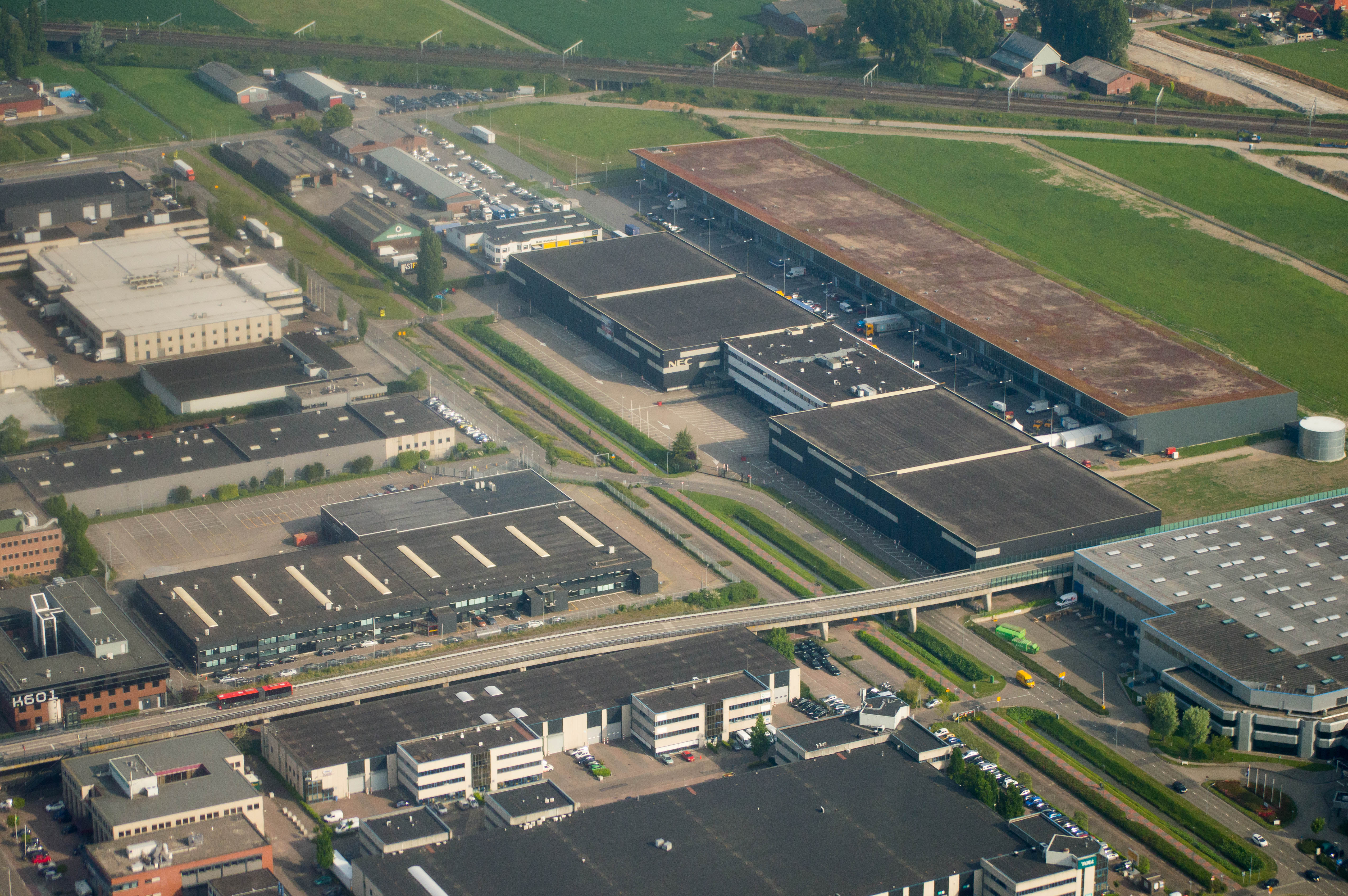 The neighbourhood of De Hoek in Hoofddorp. Picture has been taken from Estonian Airways flight OV 174.